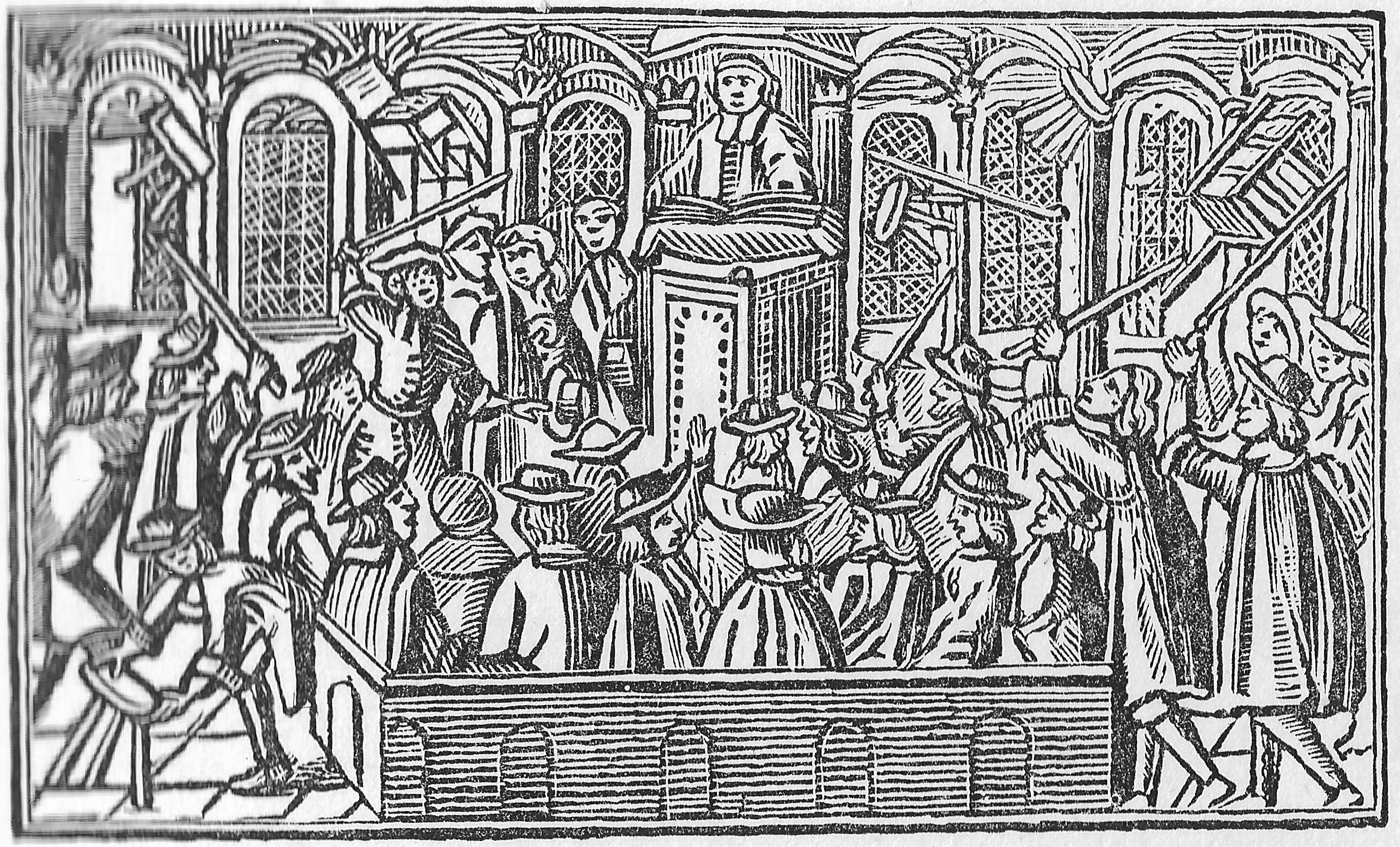 Illustration of the St Giles' Riot of 23 July 1637. The image is taken from Lees, J.C. 'St Giles' Edinburgh: Church, Church, Cathedral: From the Earliest Times to the Present Day' (Edinburgh: 1889) p. 211, where it is captioned "The Jenny Geddes Tumult (From Burton's Civil Wars)".